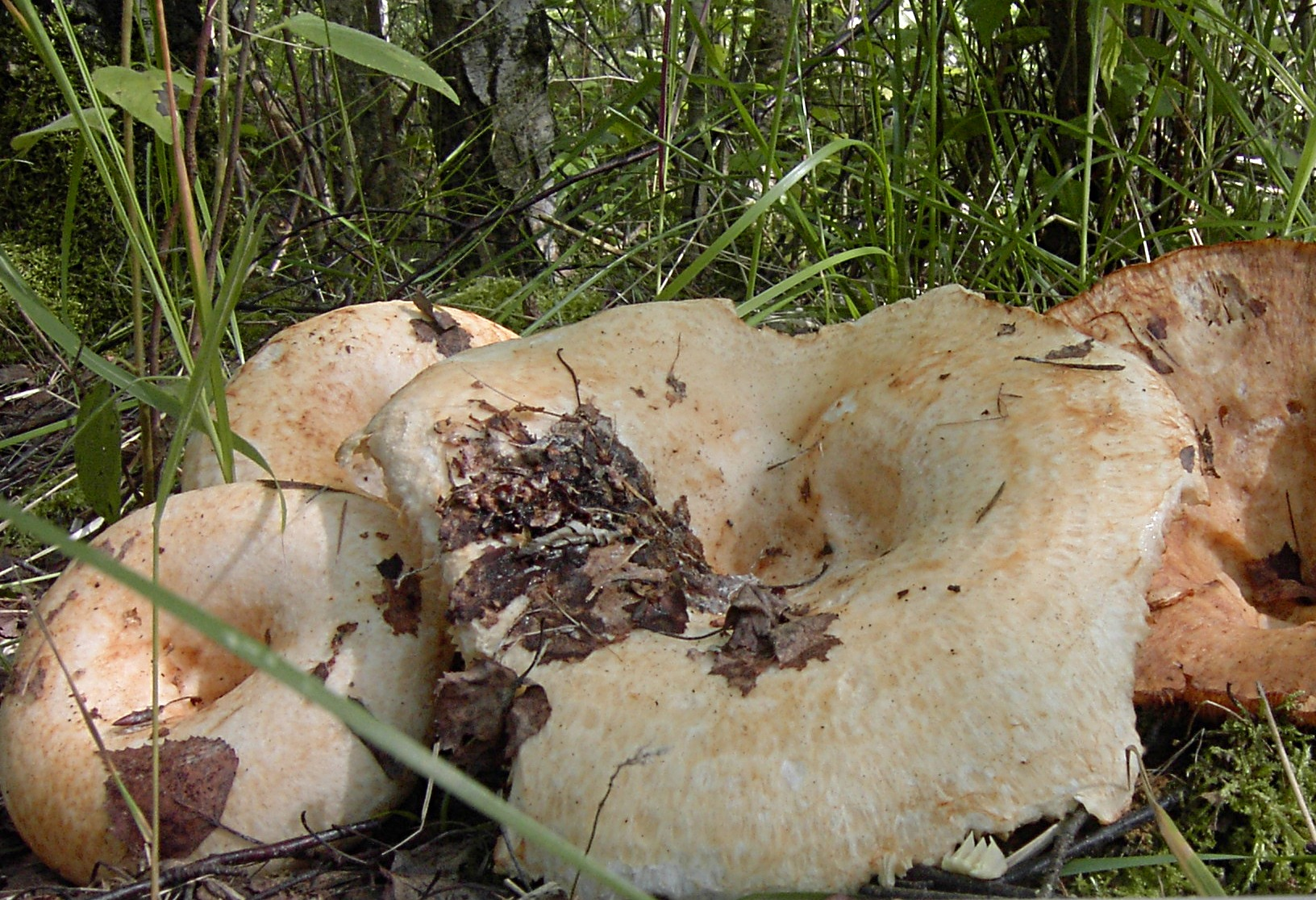 Lactarius citriolens: The white latex turns sulfur yellow on the flesh. Taste: hot, Smell: like rotting lemon peel. Locality under birch and aspen interspersed with spruce. On clayey soil; about 300m above sea level. Selters / Taunus (Germany)